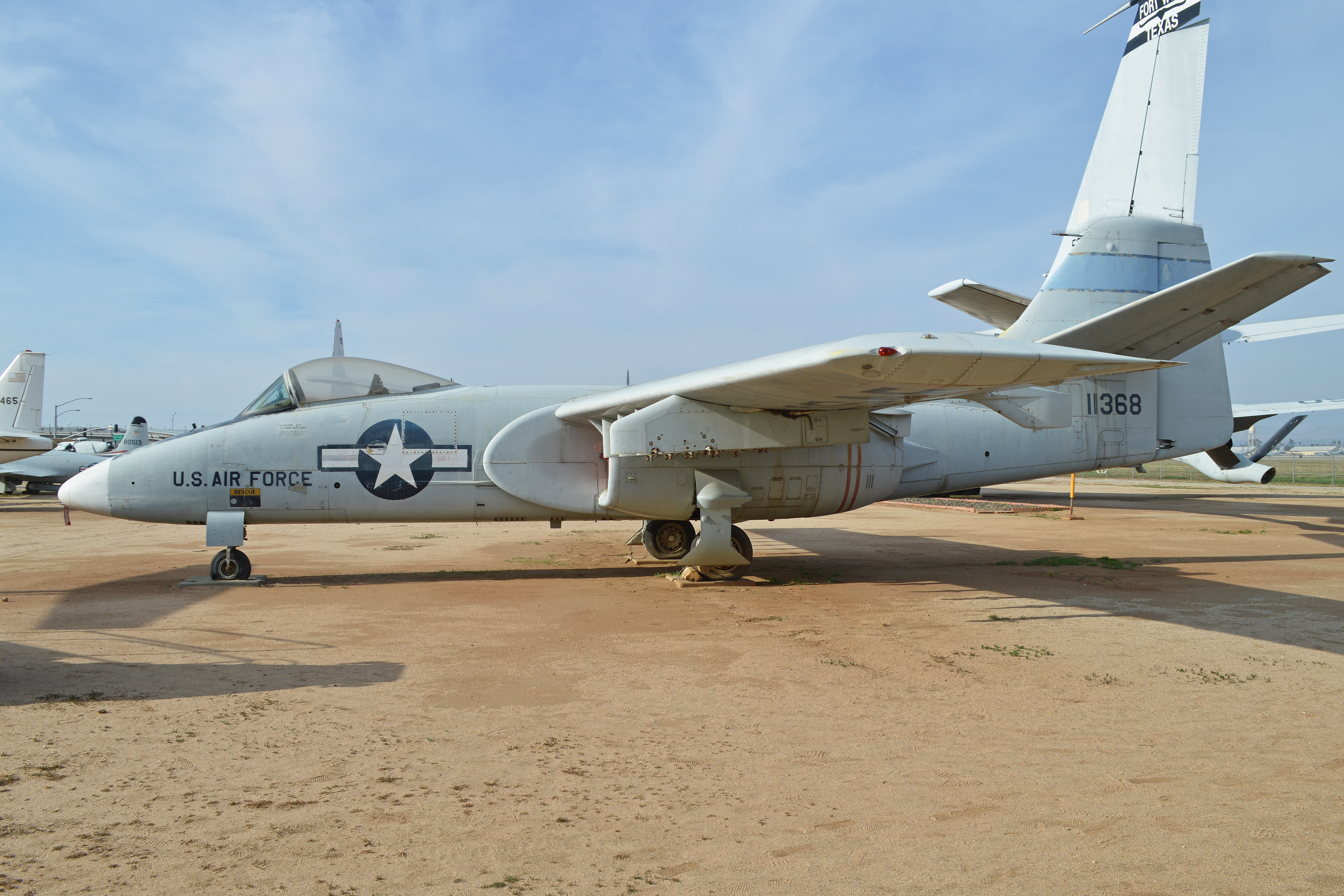 Full US military serial 71-1368. One of two prototypes built in 1972 to compete against the Fairchild YA-10 for a new USAF close air support aircraft. The YA-9 was unsuccessful while the YA-10 became the legendary A-10 Thunderbolt II. On display at the March Field Air Museum, Riverside, CA, USA. 28-2-2016